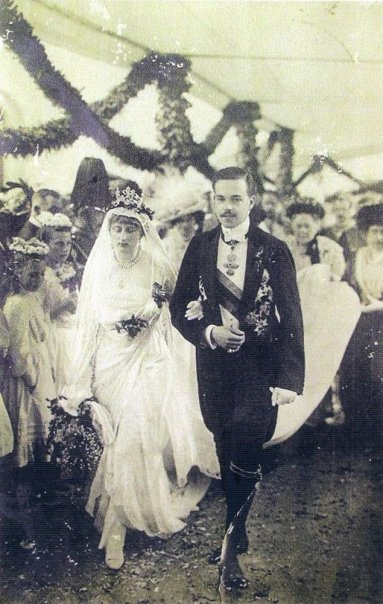 casamento